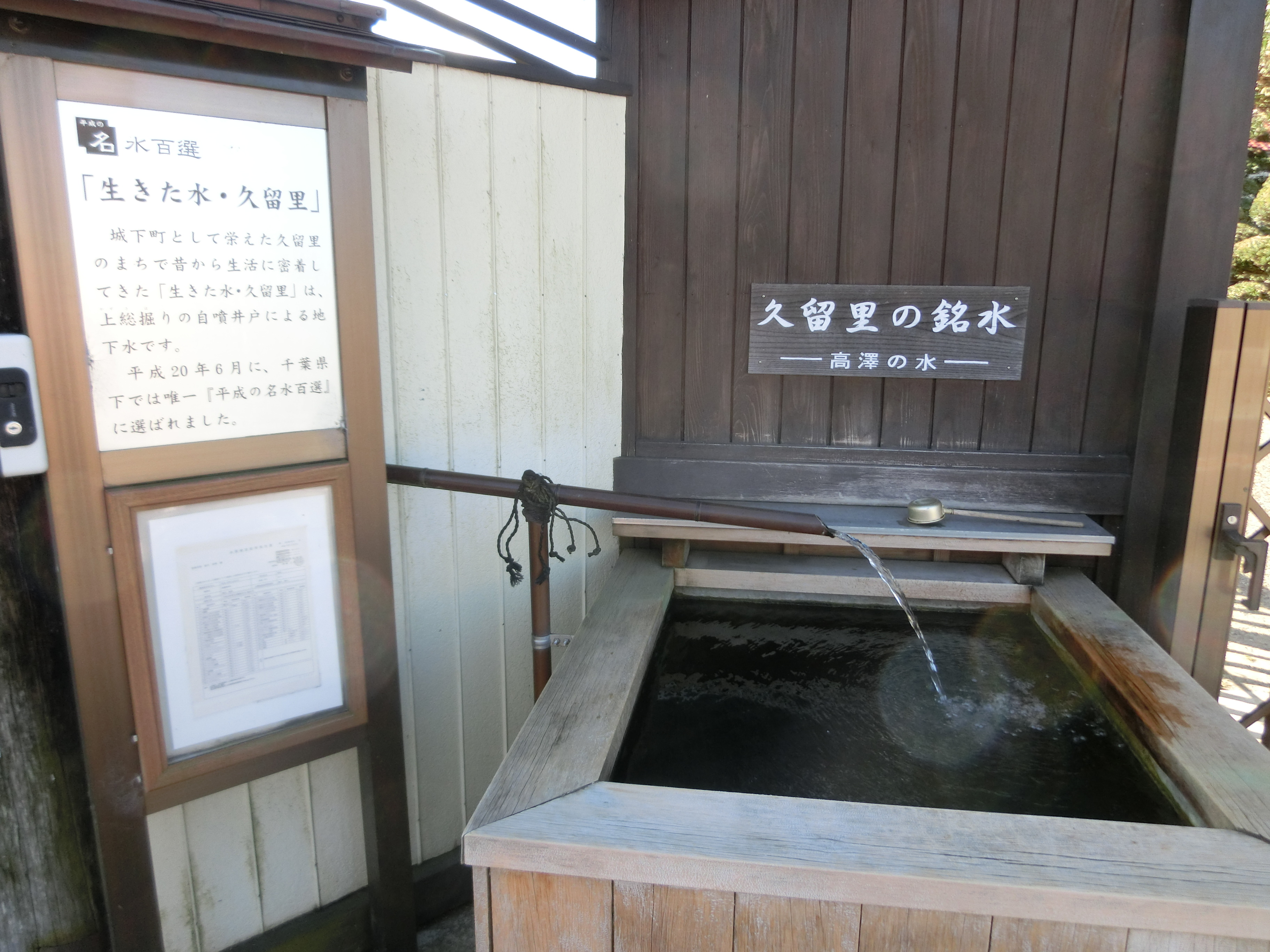 Flowing well at Kururi